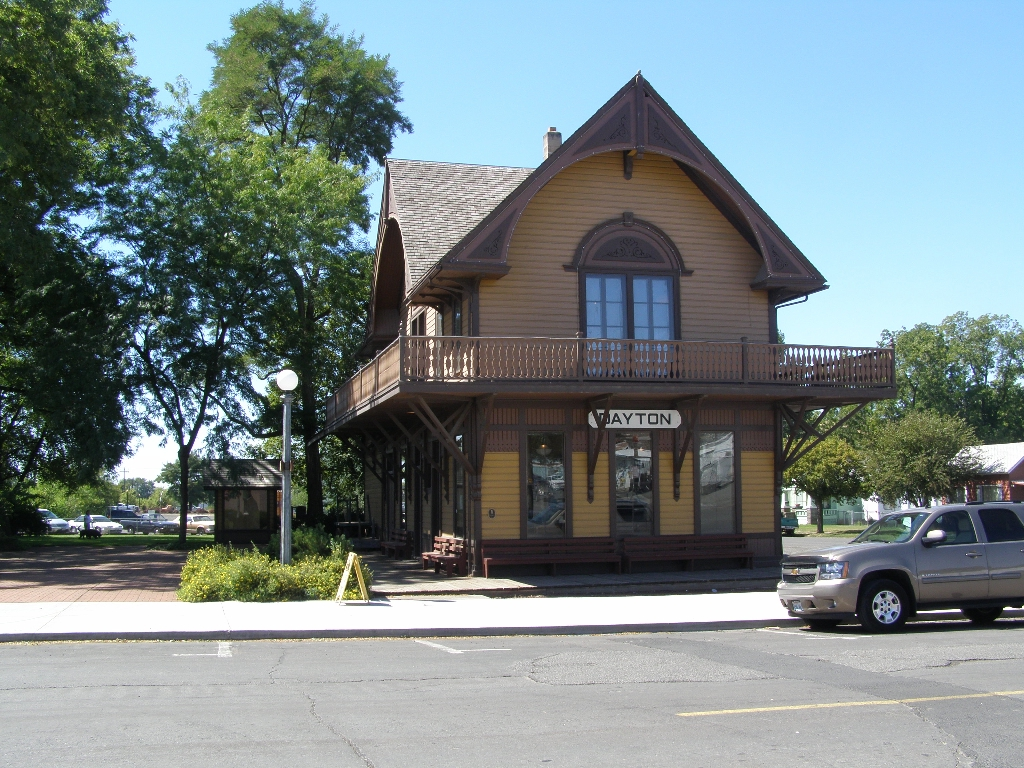 Historic railroad depot in Dayton, Washington, USA